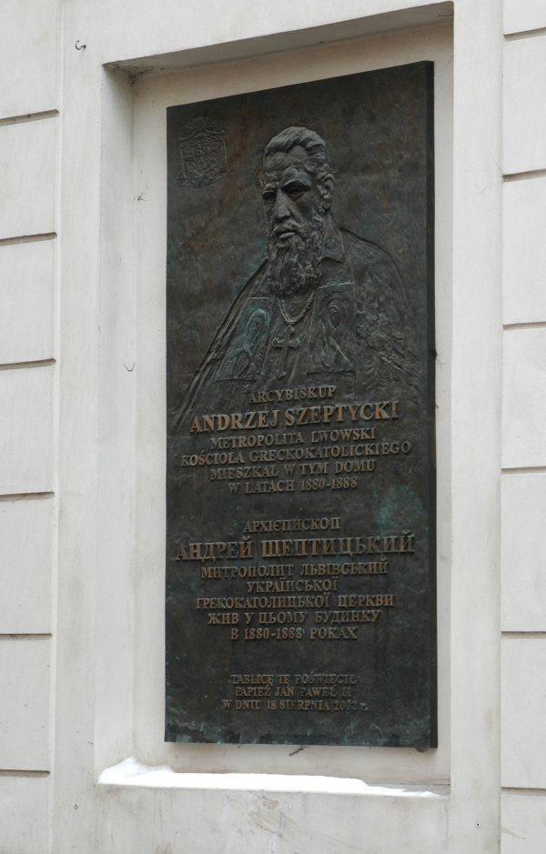 a memorial plaque in Krakow, commemorating the place where Andrey_Sheptytsky lived in late 19th century